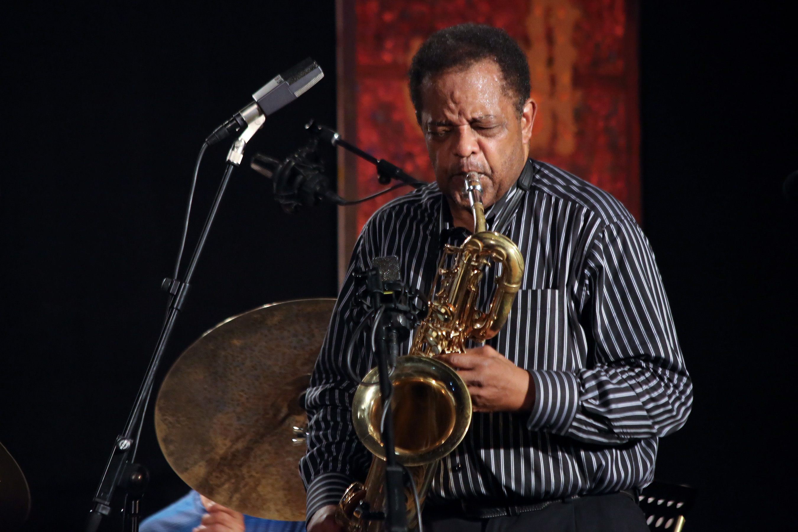 Mansur Scott (voc, perc), Howard Johnson (bar, tub, fl), Oliver Kent (p), Wolfram Derschmidt (b), Mark Johnson (dr) - INNtöne Jazzfestival (Diersbach, Upper Austria)